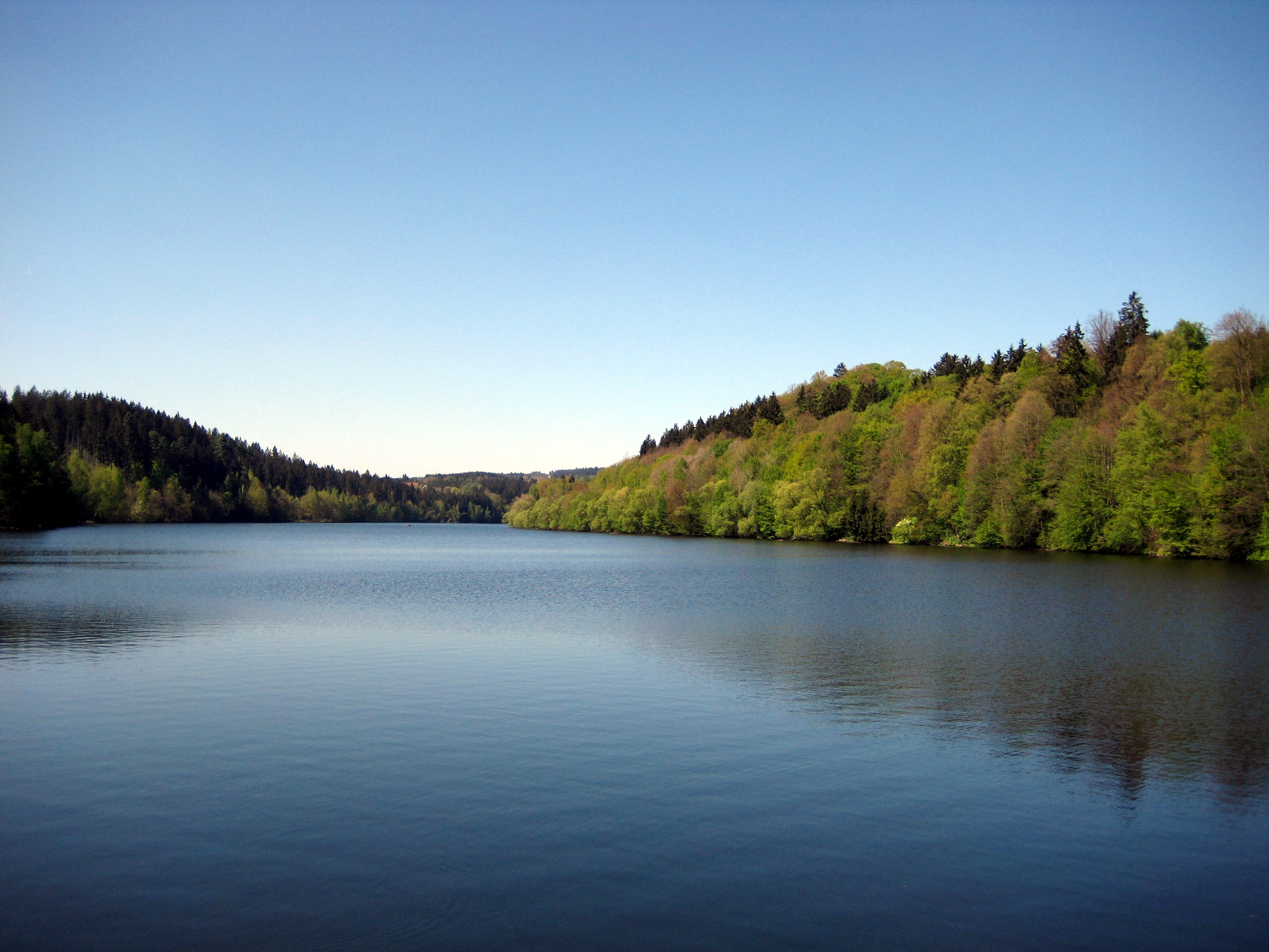 Reservoir Oberilzmühle (Ilz) near Passau